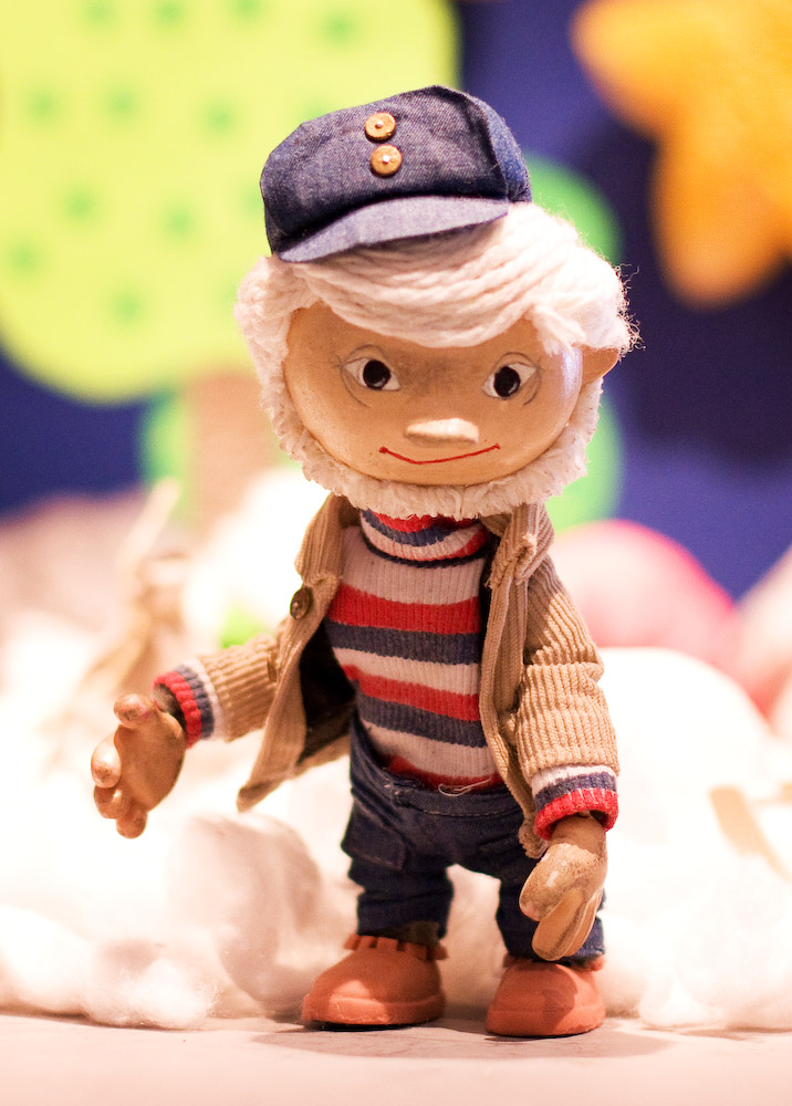 Little Sandman (German "Sandmännchen") as shown on West German television.